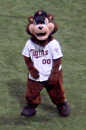 TC, mascot for the Minnesota Twins. Please observe license and properly cite in use outside Wikipedia.